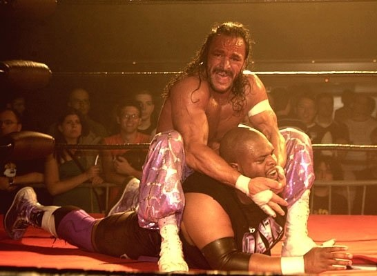 Dru Onyx vs ECW and WWE veteran Sabu.